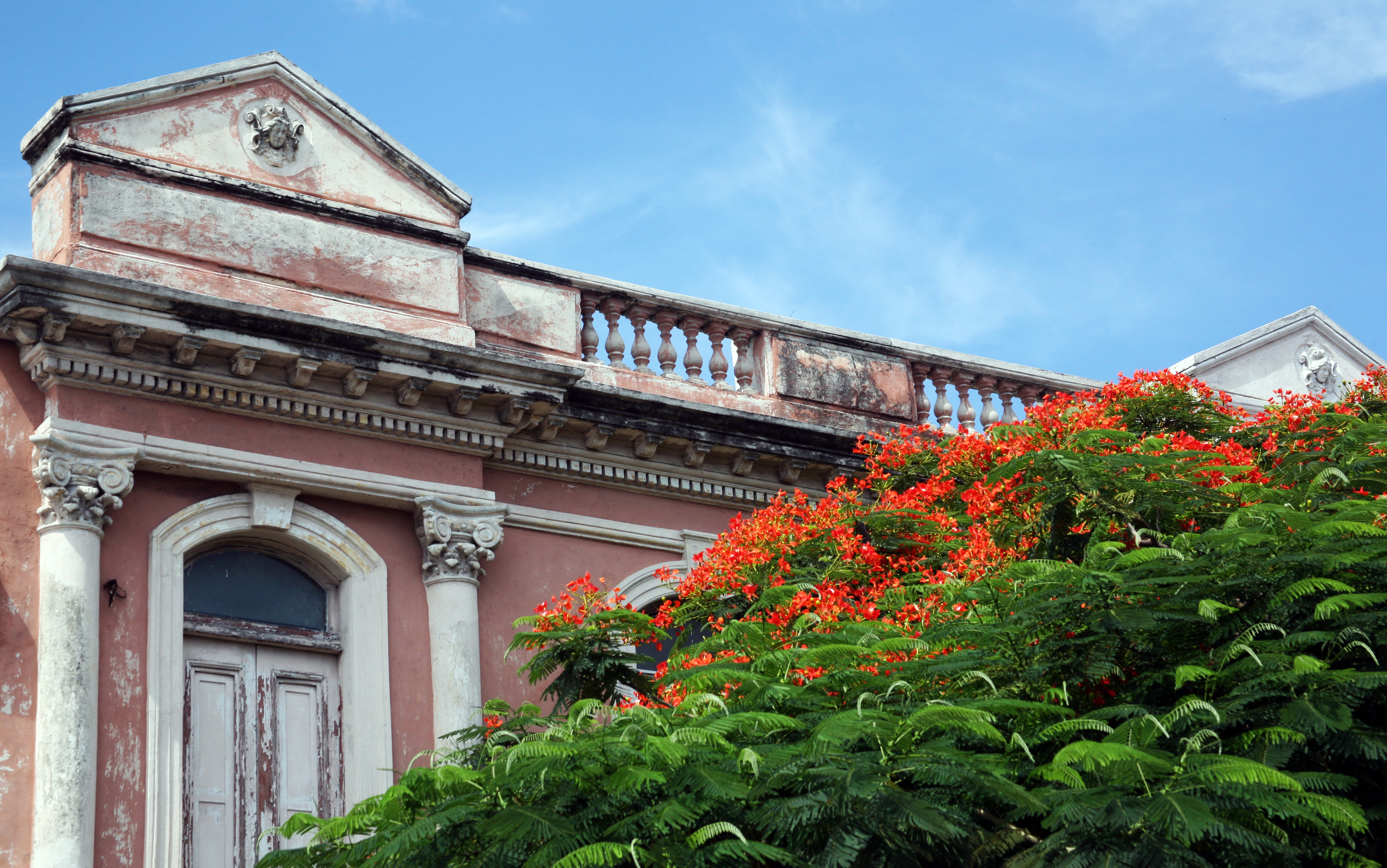 Old house in Merida, Yucatan, Mexico and Tabachin tree (Delonix regia)